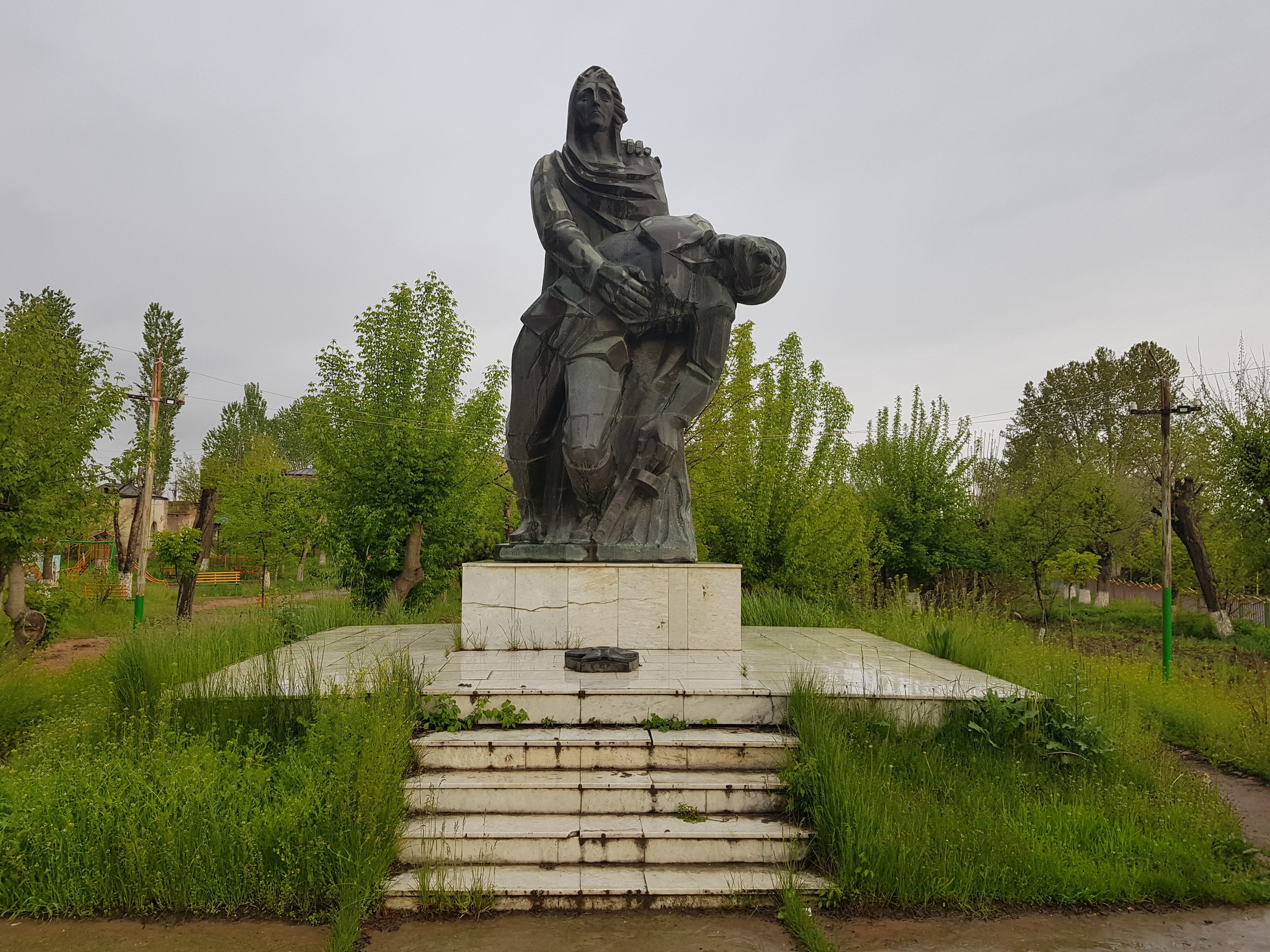 WW2 Memorial in Aygezard, Ararat